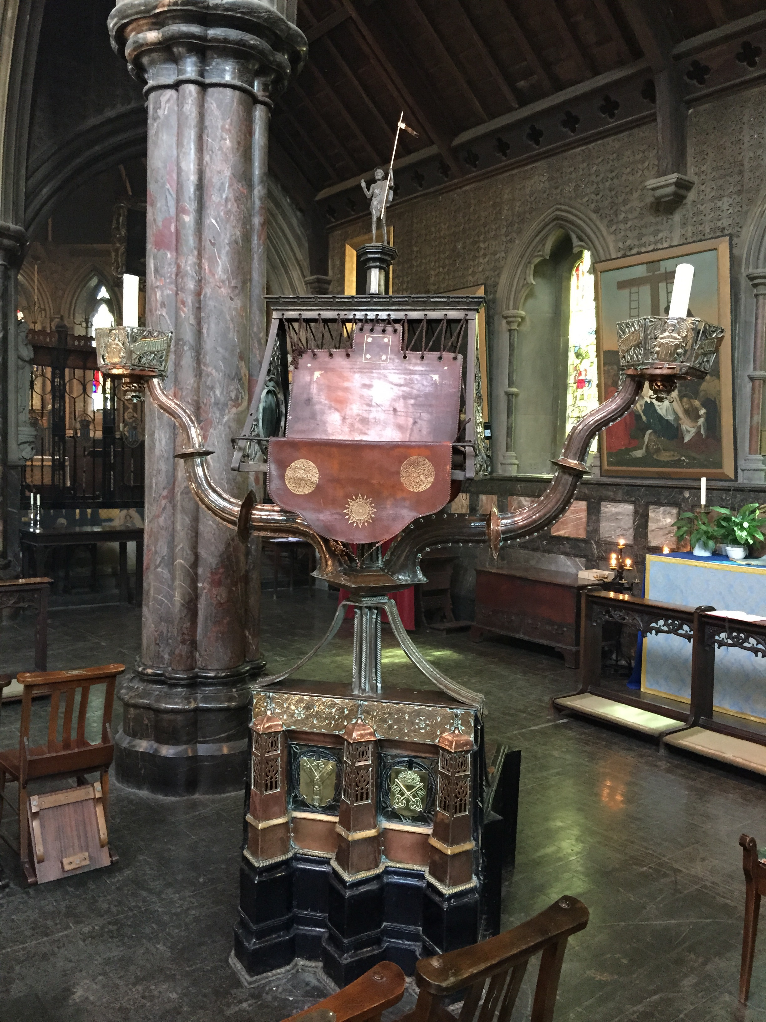 St Cuthberts Lectern